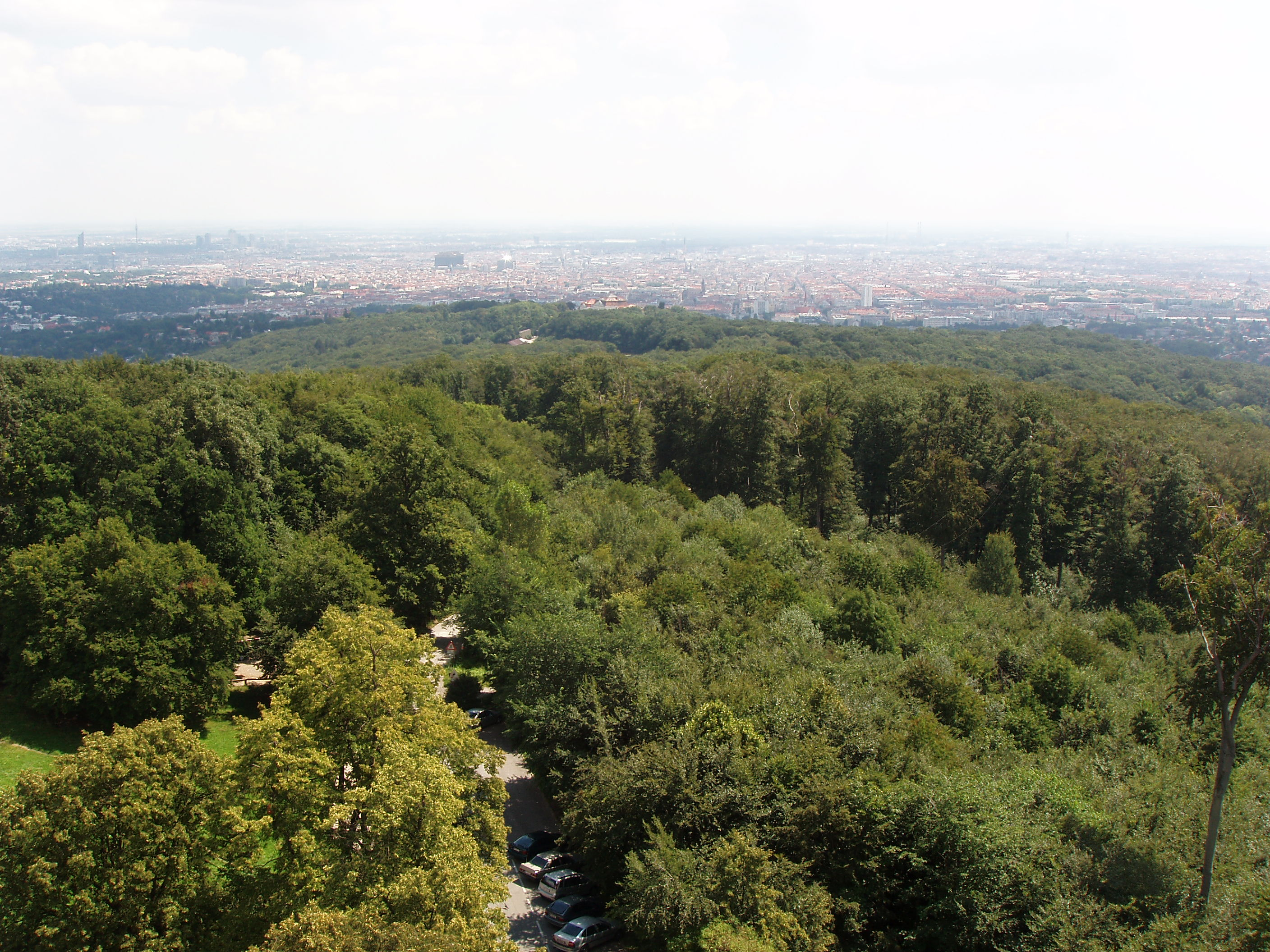 View from Jubläumswarte over Gallitzinberg to Vienna